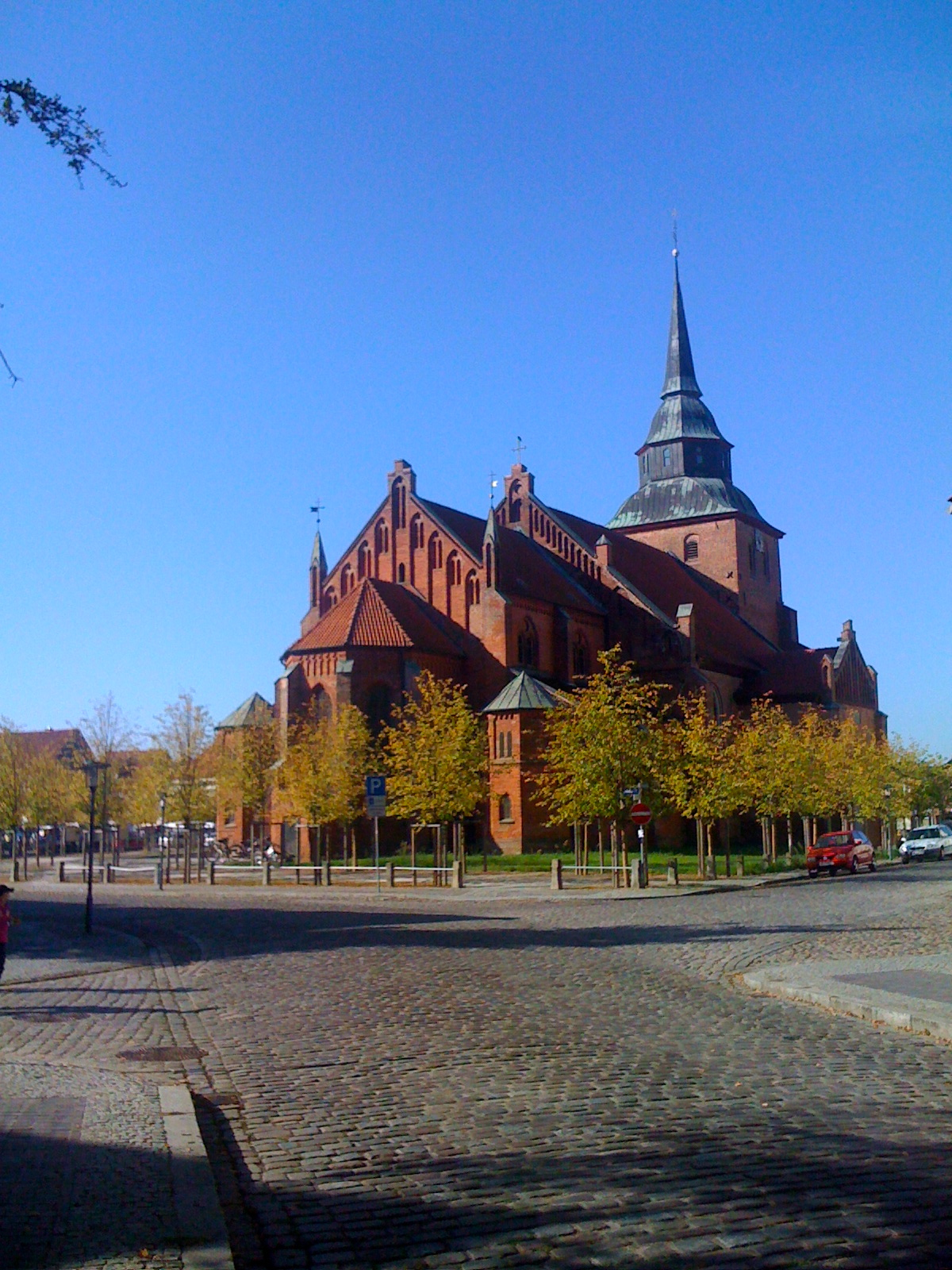 St. Mary's Church Boizenburg